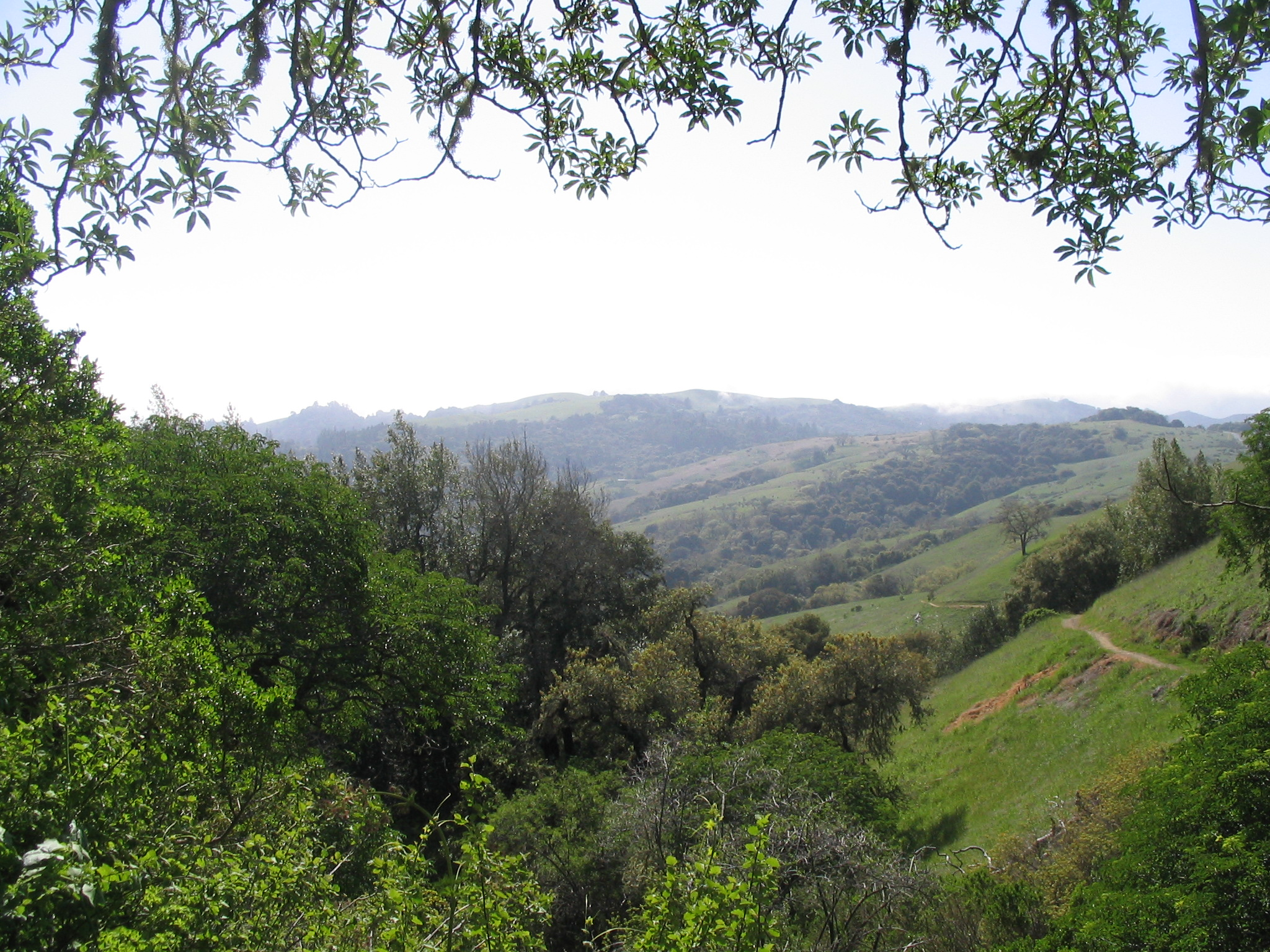 Monte Bello Open Space Preserve, in the Upper Stevens Creek Valley, Santa Cruz Mountains, California. View along the Bella Vista Trail.